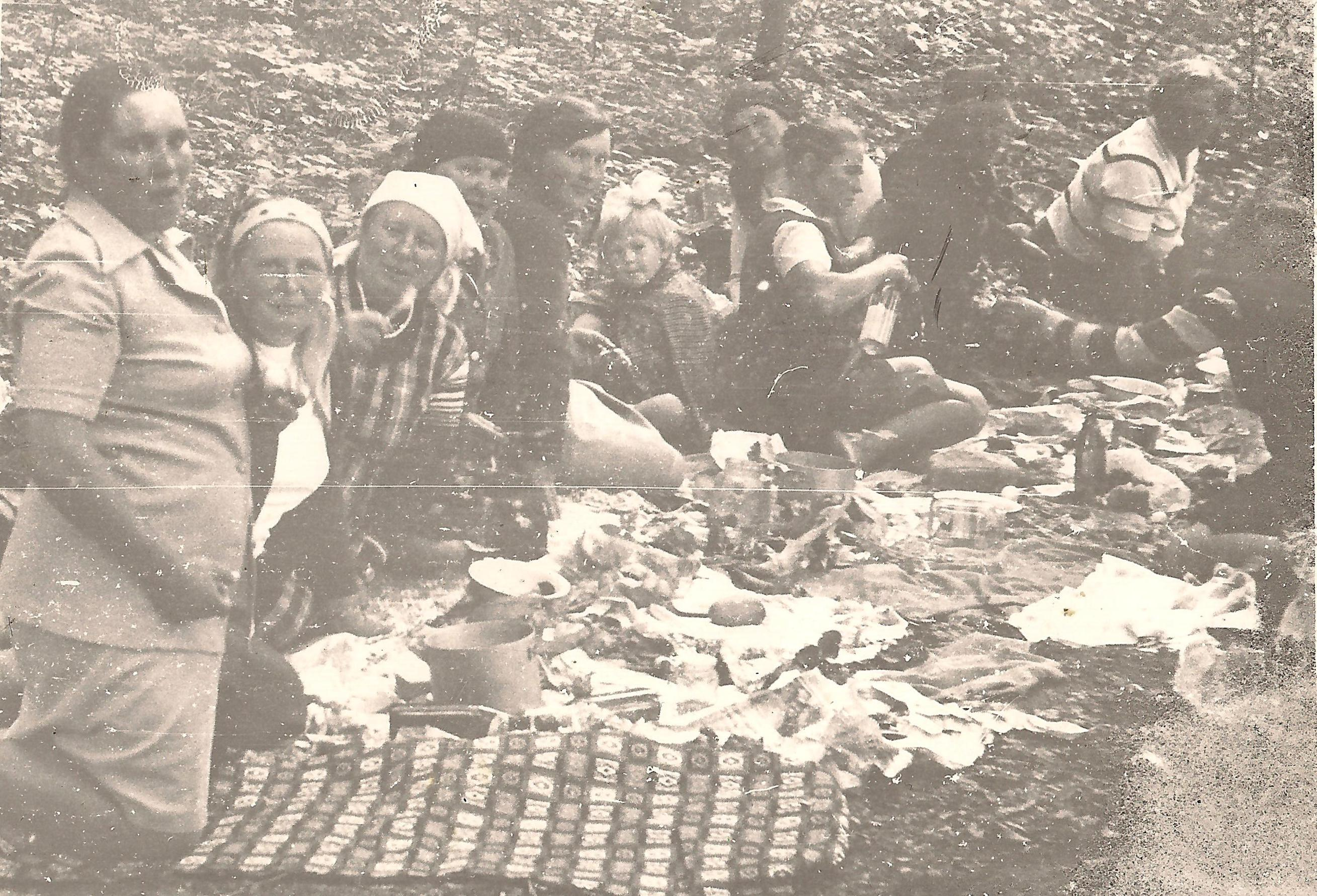 Ланка на обіді (1984 р.)